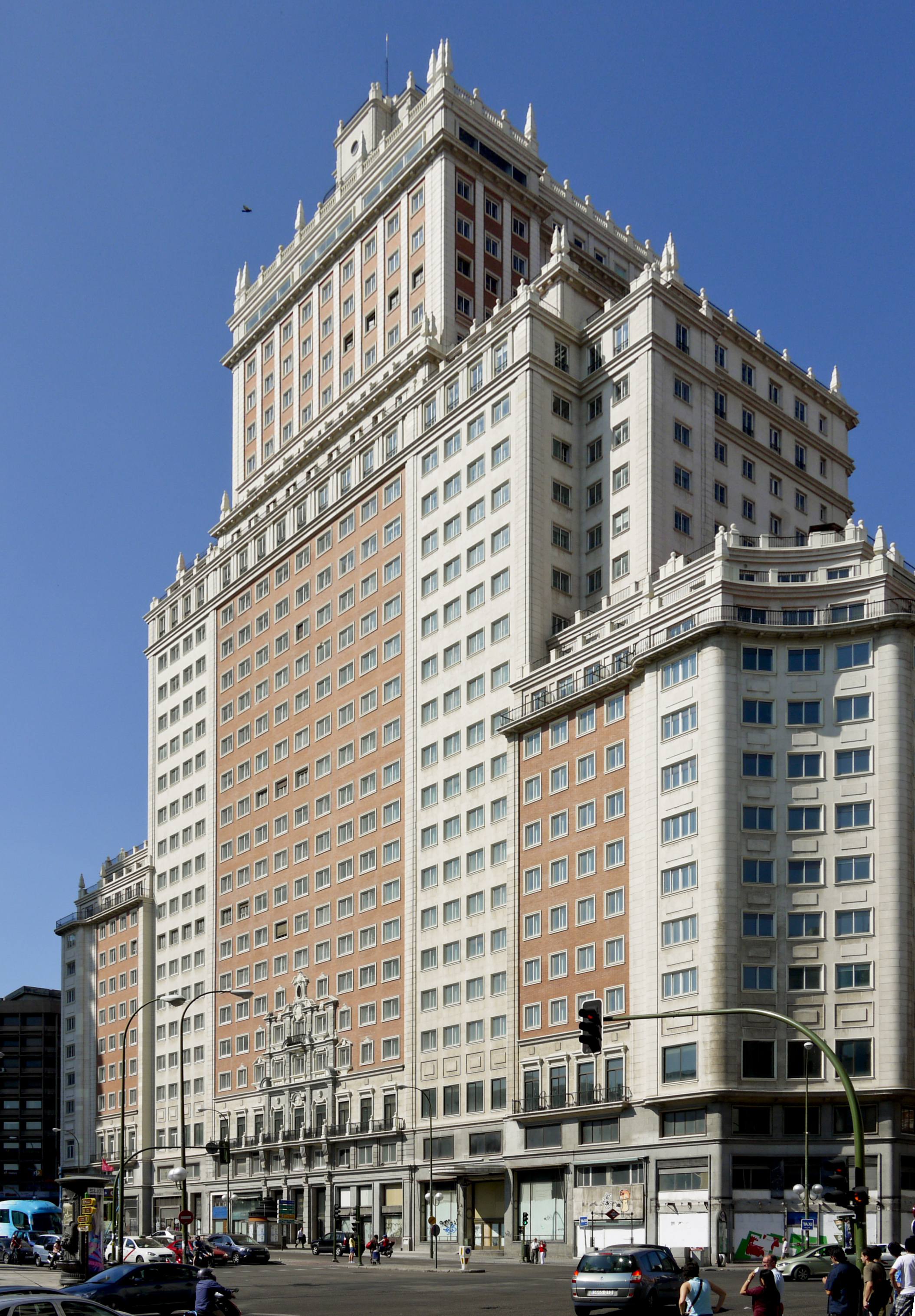 Edificio España, Plaza de España, Madrid, Spain.